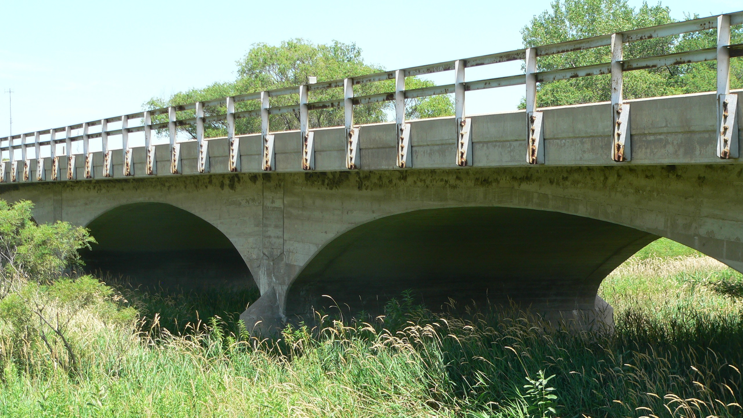 Portion of Cambridge State Aid Bridge, carrying Nebraska Highway 47 across the Republican River just south of Cambridge, Nebraska; seen from the southwest (upstream is west). The deck arch bridge was constructed in 1914. It is listed in the National Register of Historic Places.